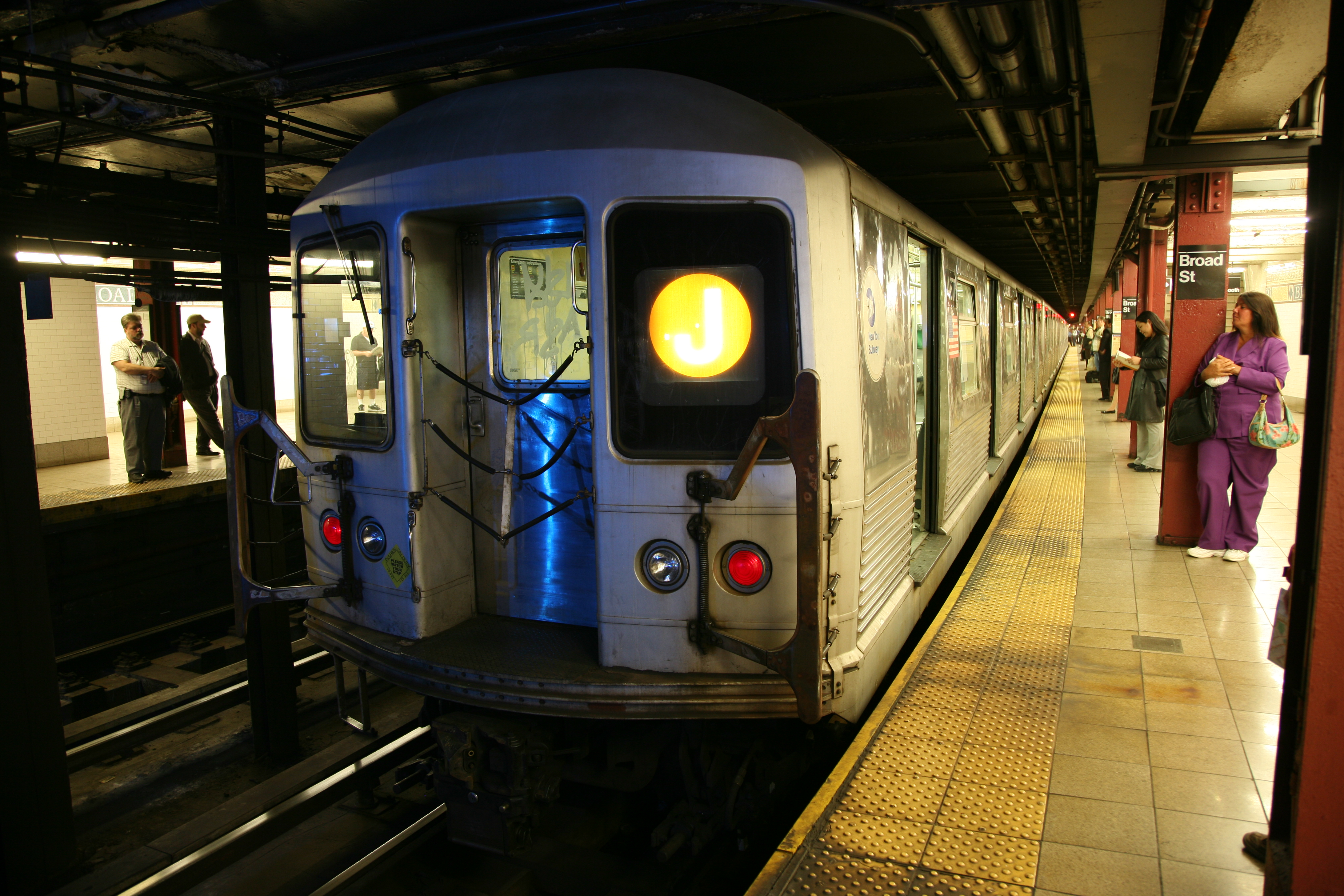 J-line train in Broad Street station, New York City